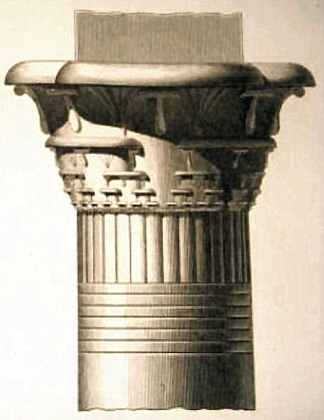 Column Capital with pattern like Cantor set.Engraving of Ile de Philae from Description d'Egypte by Jean-Baptiste Prosper Jollois and Edouard Devilliers, Imprimerie Imperiale, Paris, 1809-1828